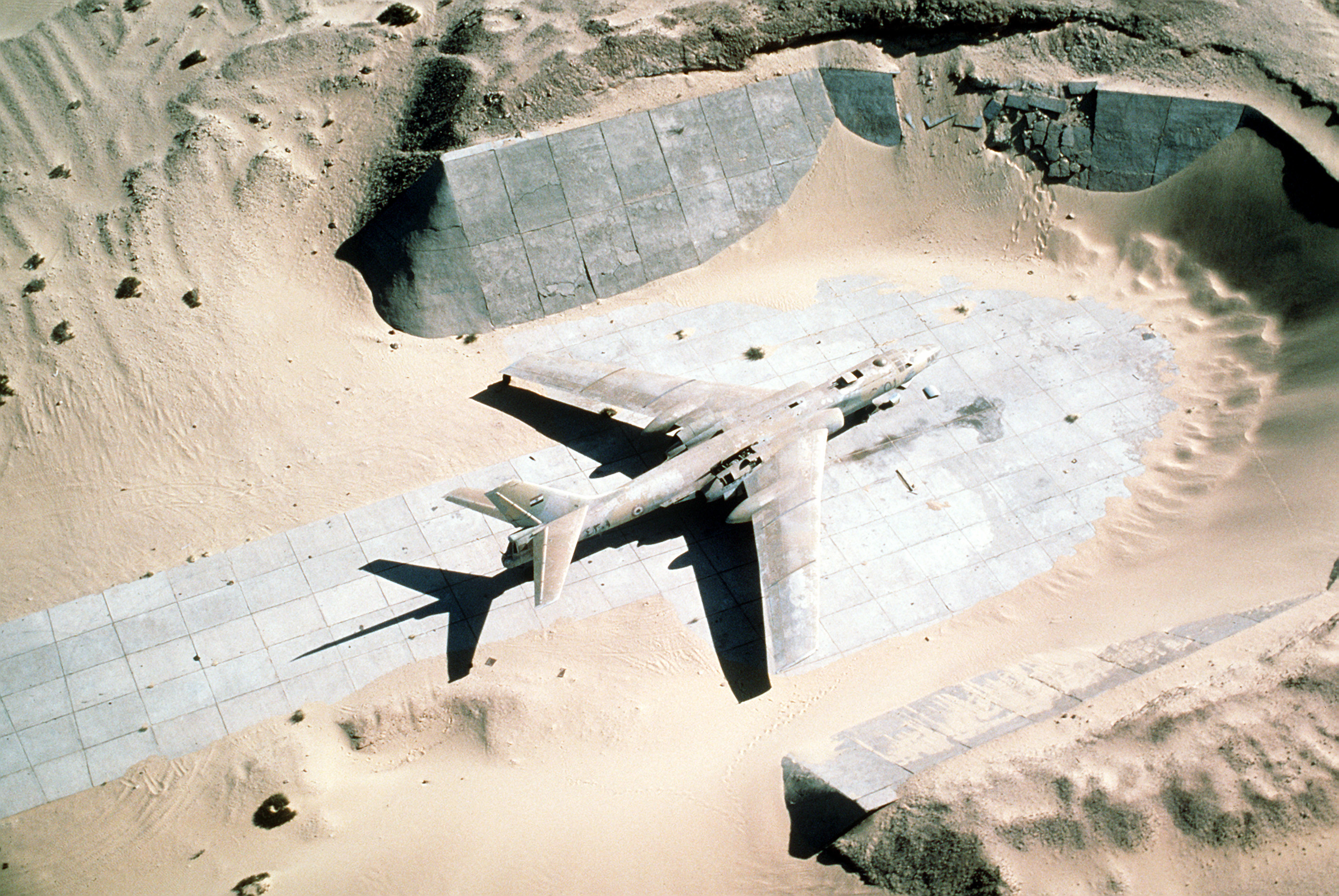 An aerial view of an Egyptian (Soviet built) Tu-16 Badger aircraft parked on a ramp.